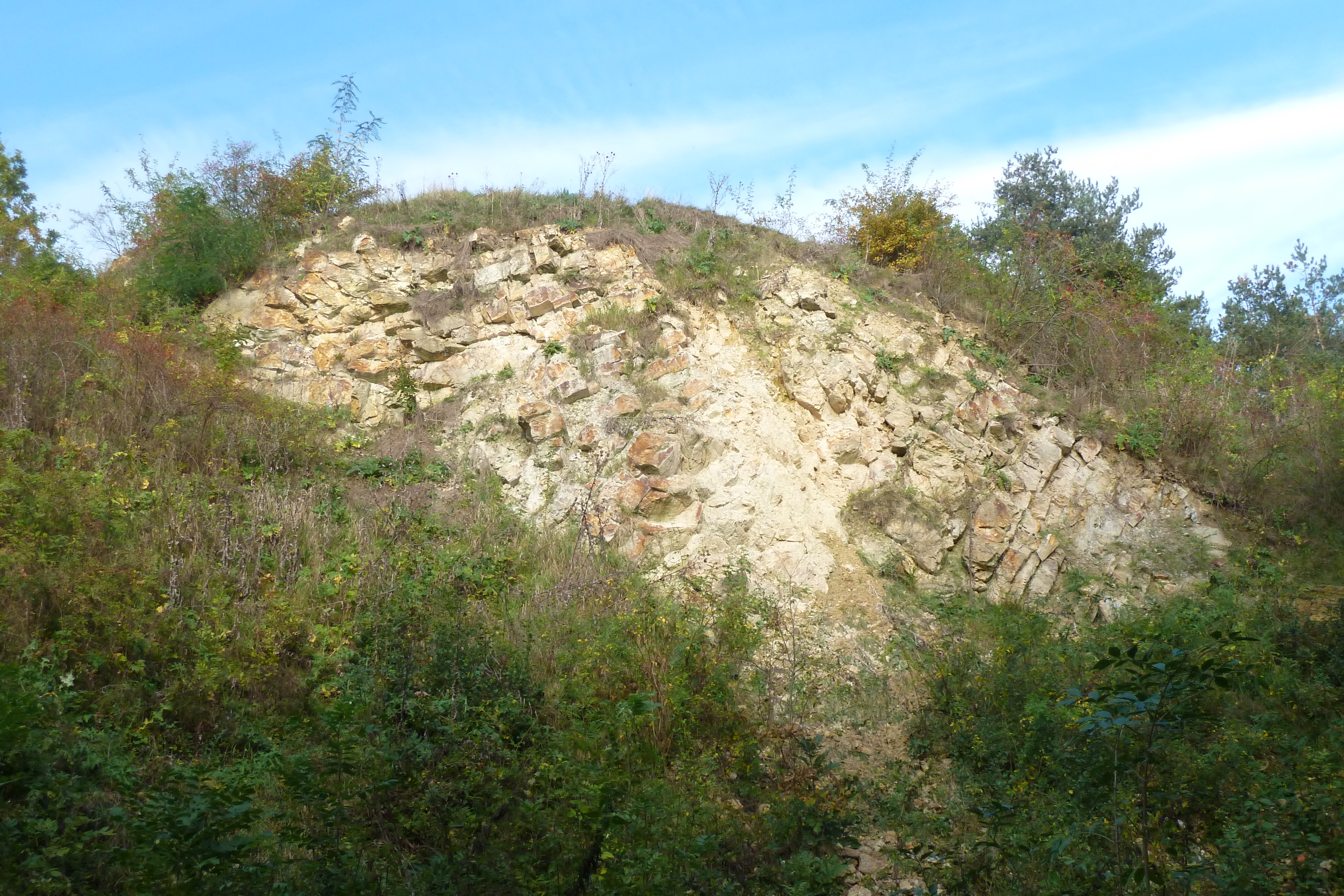 Rohoznik quarry - M shaped fold